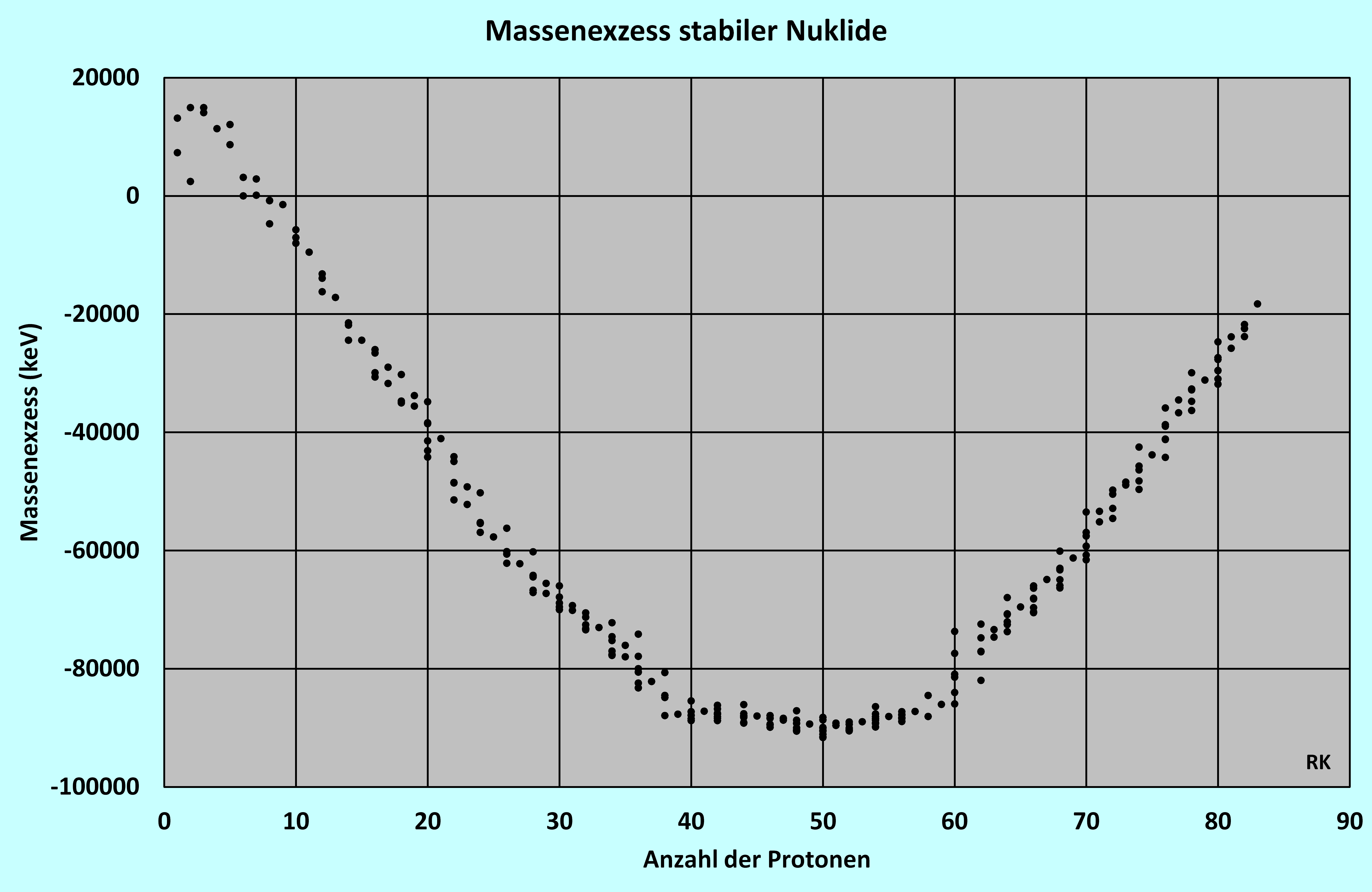 Mass excess of stable nuclides